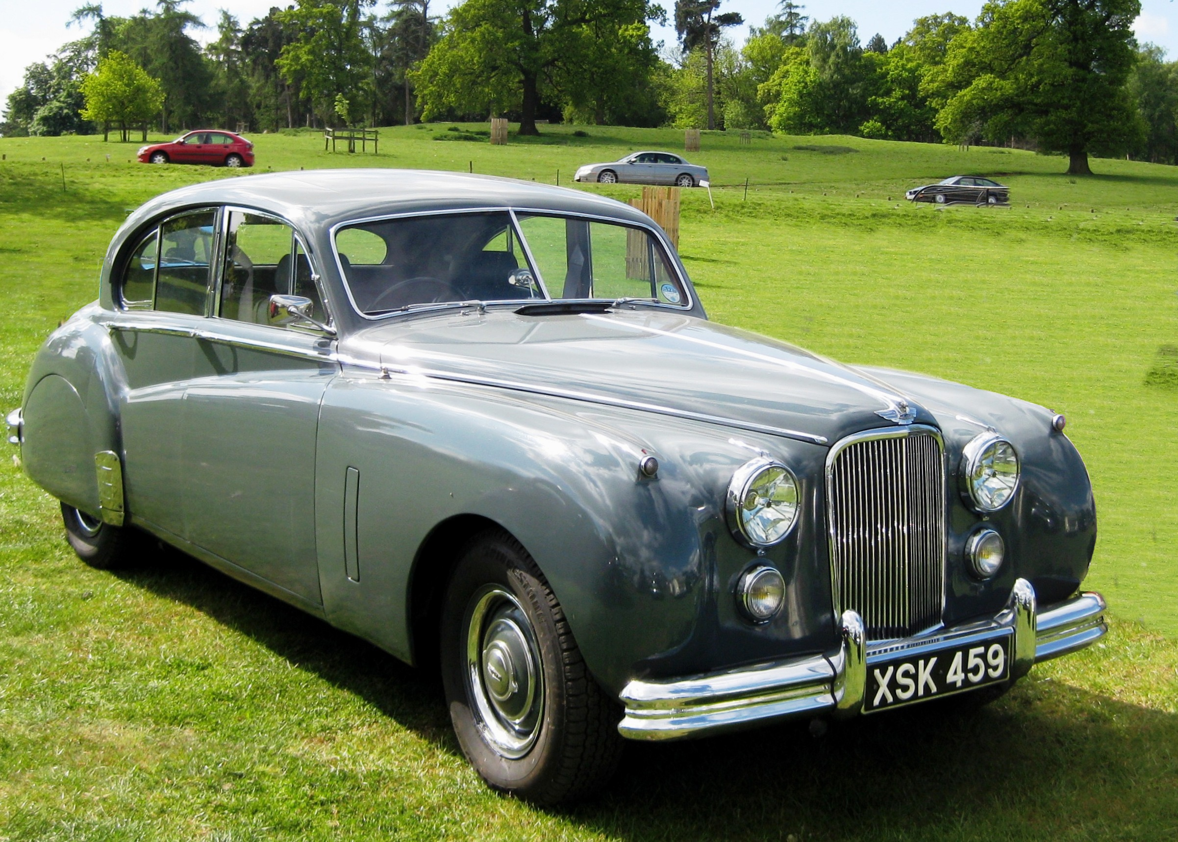 1954 Jaguar Mark VII Near Biggleswade Some background vehicles have been removed using Photoshop